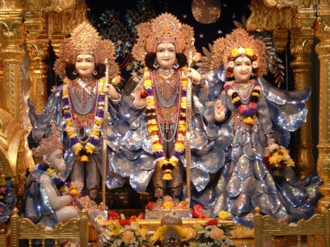 Deities of Sri Sri Sita-Rama, Lakshmana, Hanuman at Bhaktivedanta Manor temple, in Watford, England.